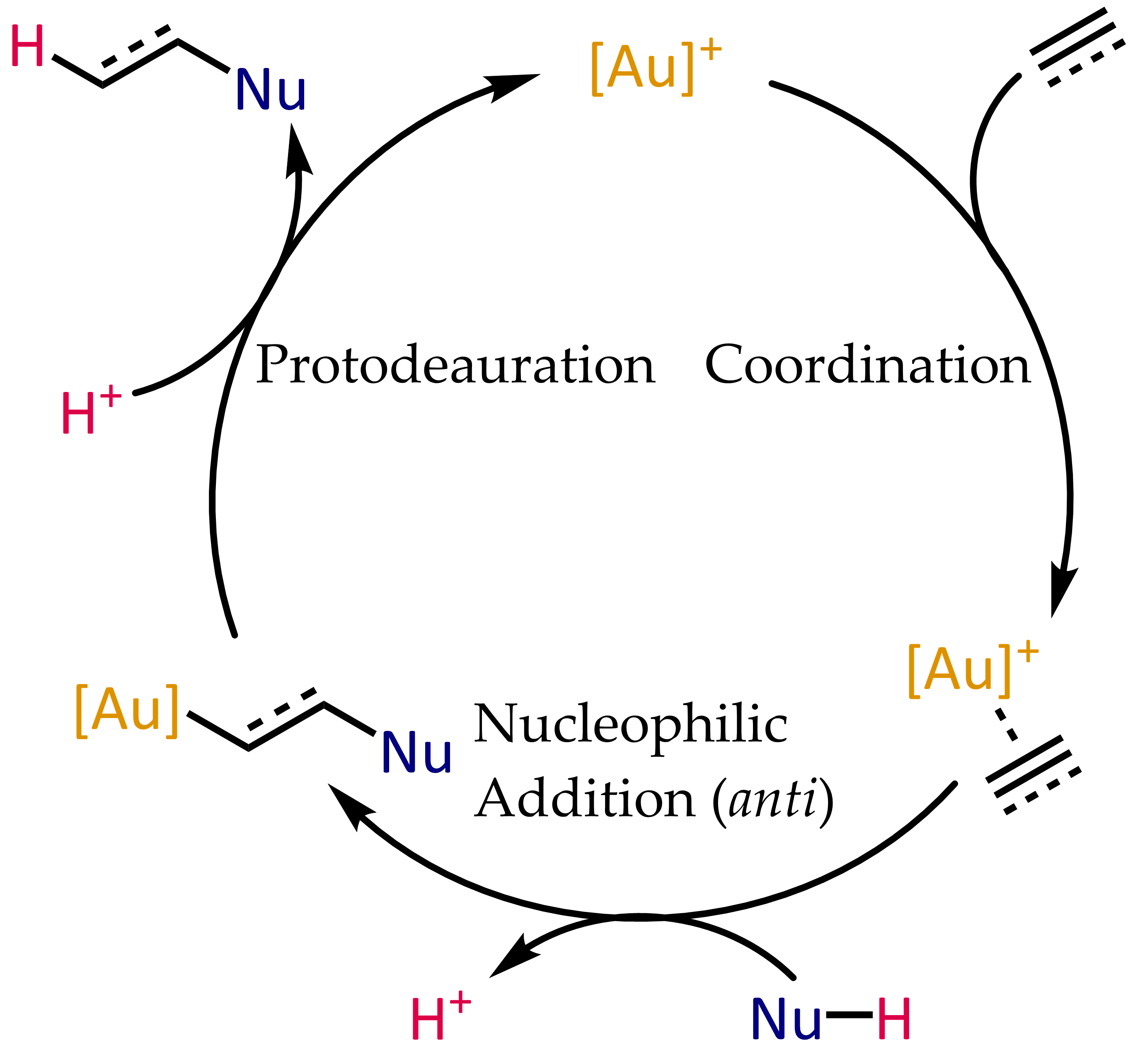 Generic catalytic cycle for gold(I) catalyzed hydrofunctionalization